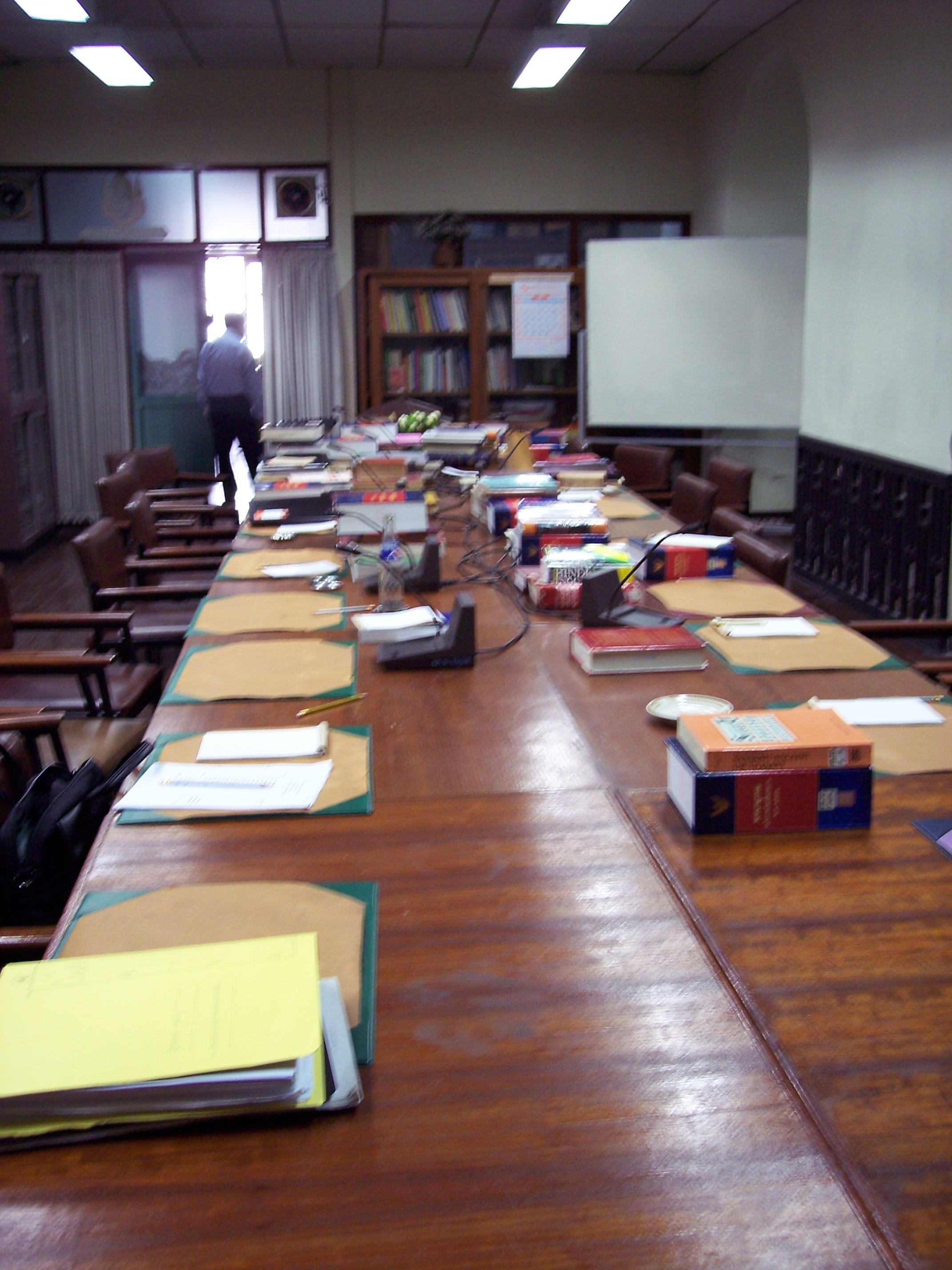 A meeting room of the Royal Institute, after a meeting of the Dictionary Revision Committee.